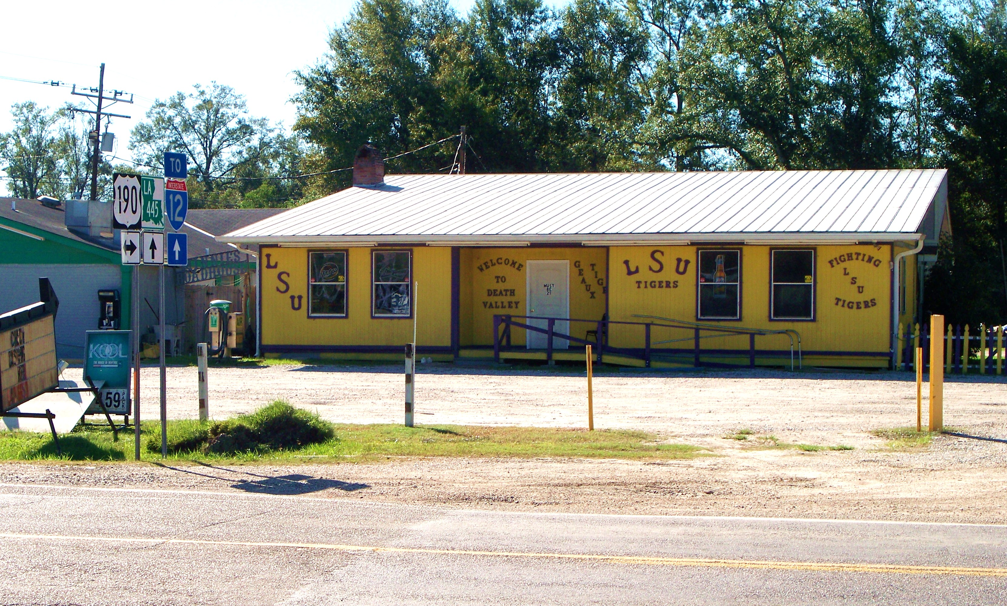 Minnie's Roadhouse in central Robert, Louisiana, manifests a pronounced preference in intercollegiate sports.